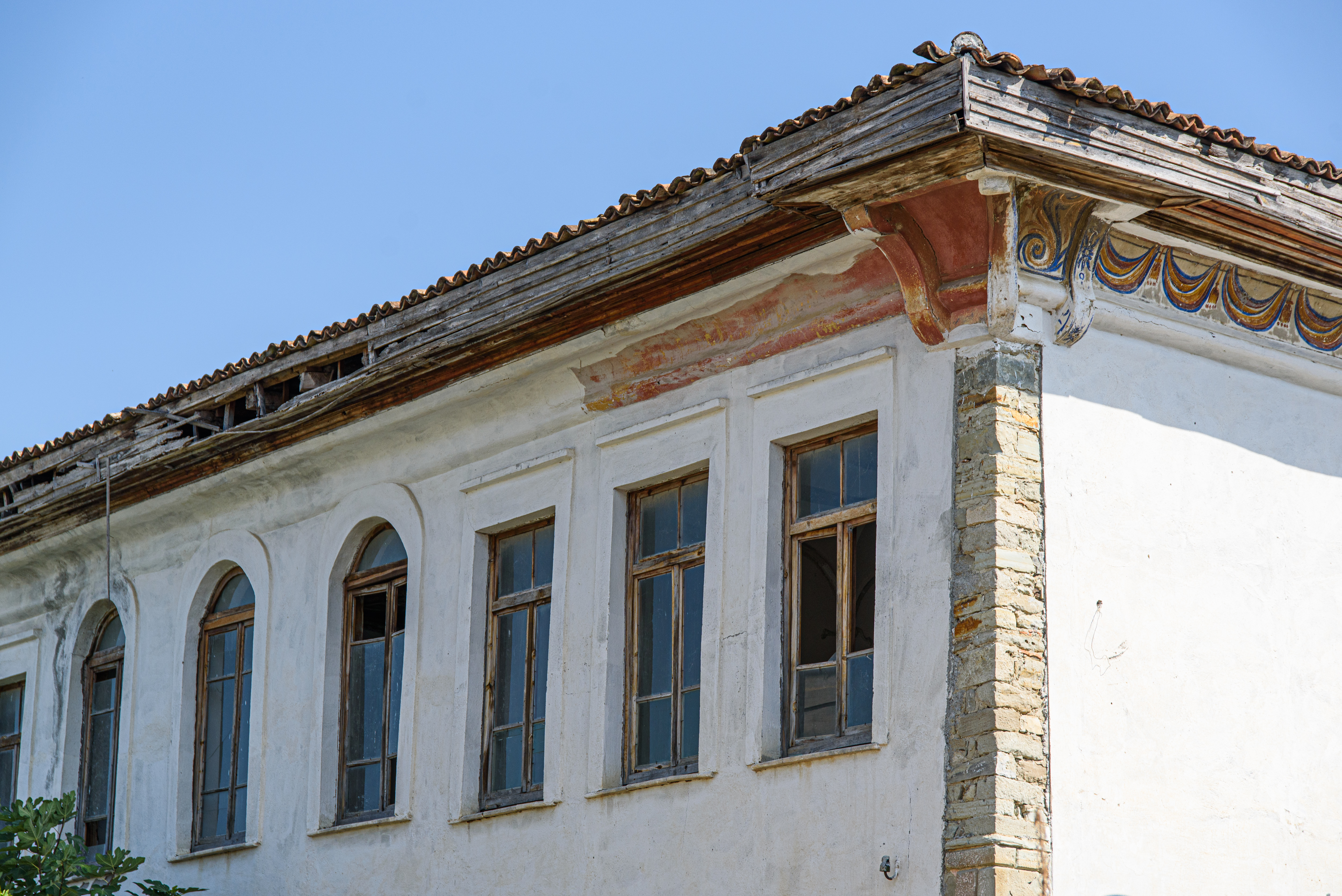 Photo realised during the expedition around Albania for the project The Albanian House